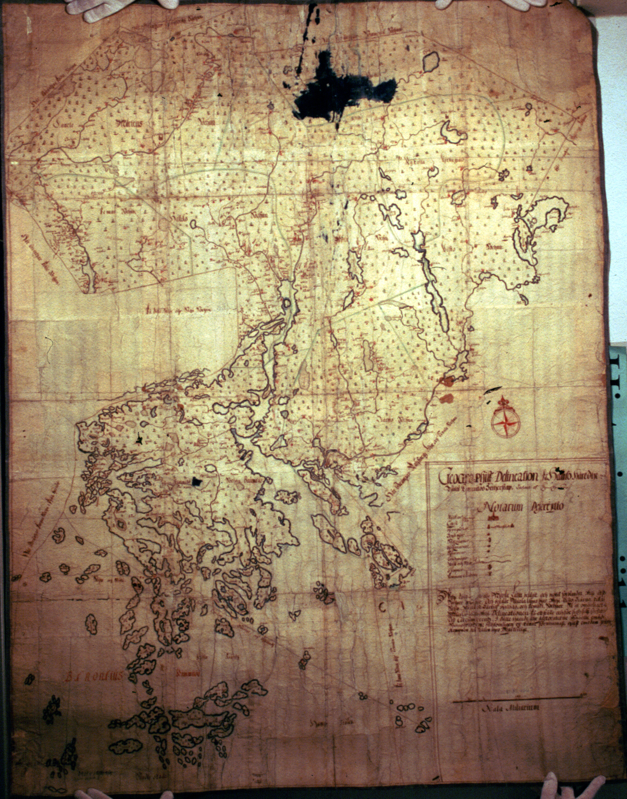 Map of Halikko hundred, from 1650s